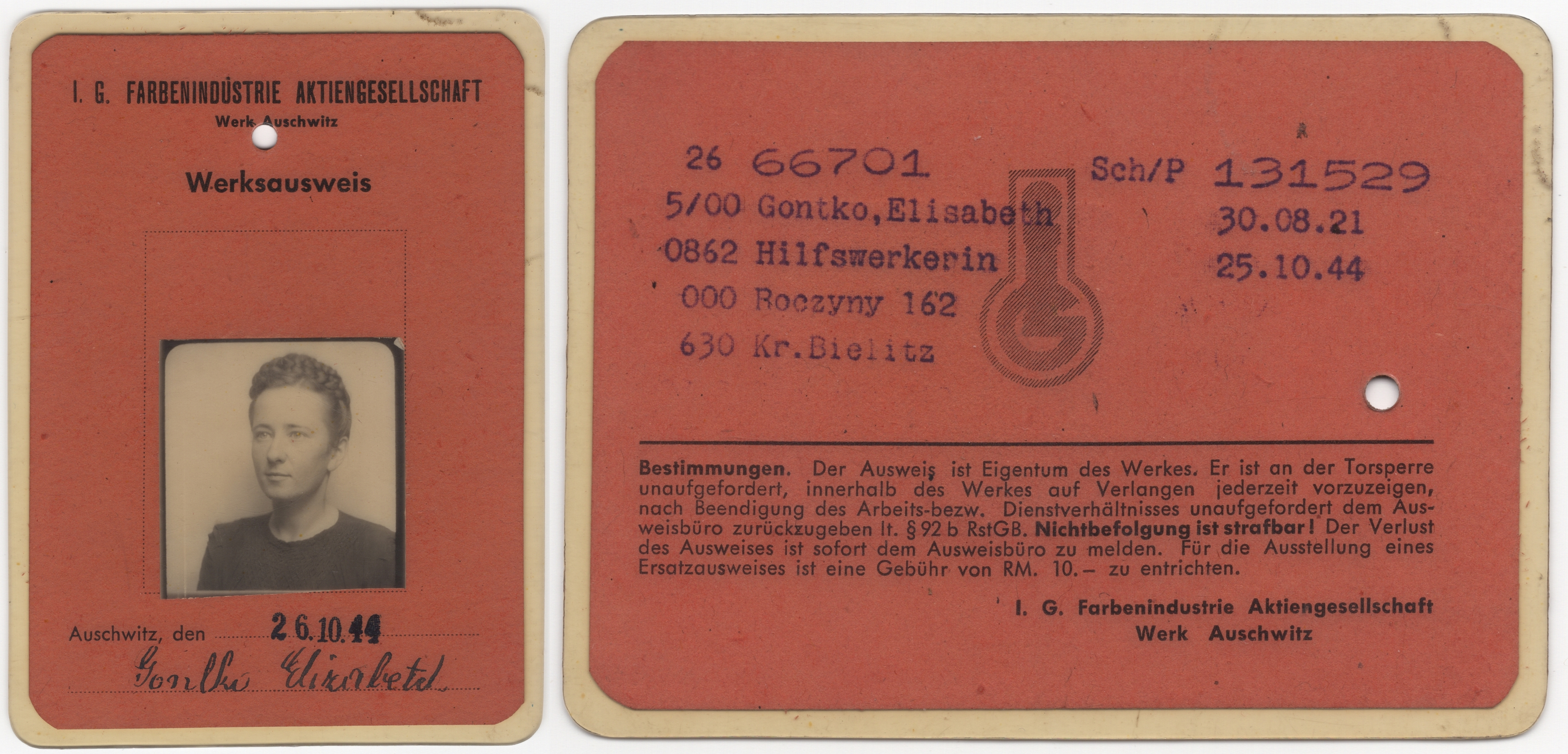 I. G. Farbenindustrie Aktiengesellschaft Werk Auschwitz WORKS CERTIFICATE 1944